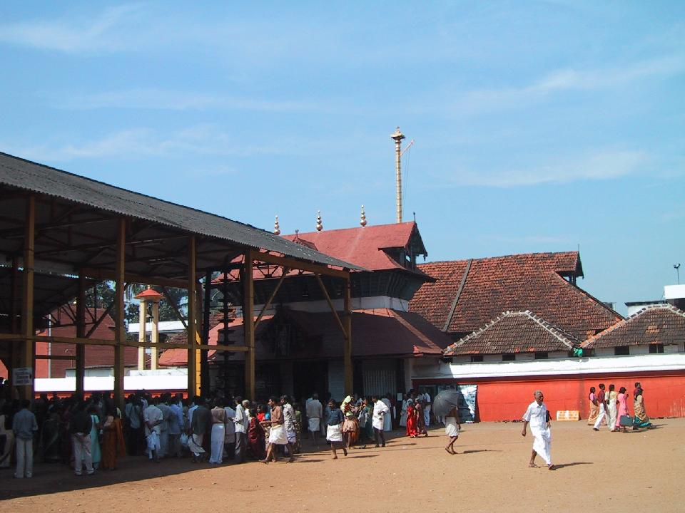 Gurovayoor temple eastern entrance!